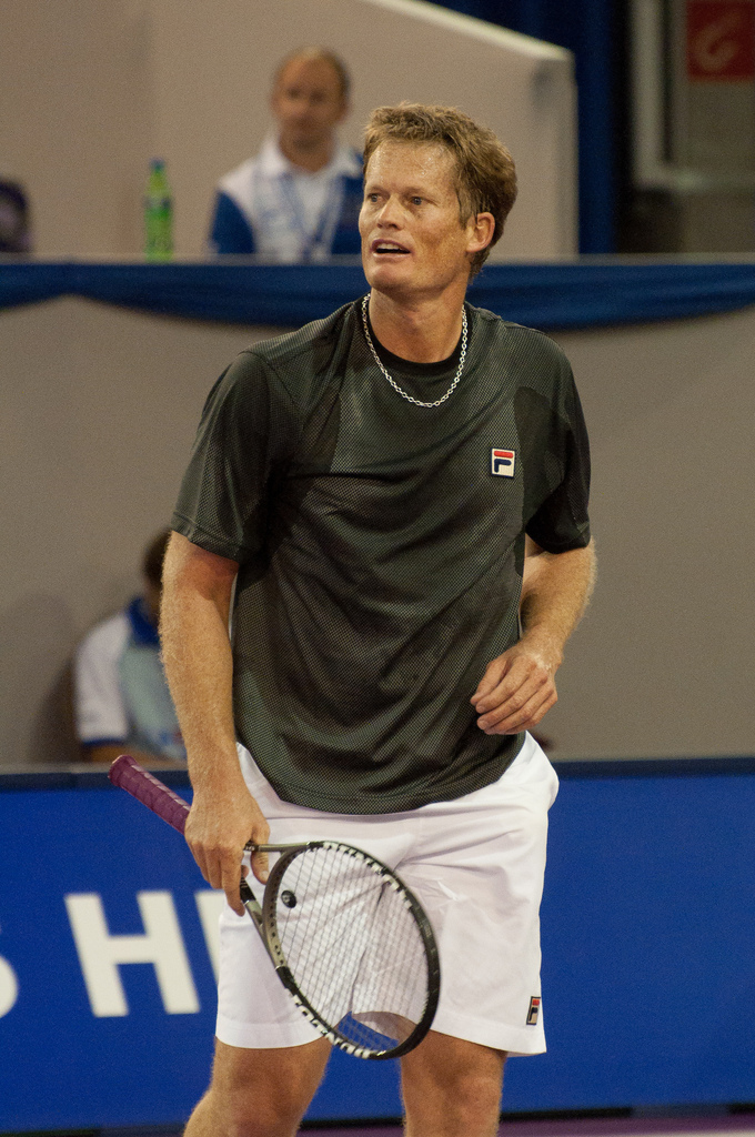 Wayne Ferreira at the AFAS Tennis Classics 2010 in Eindhoven, The Netherlands.